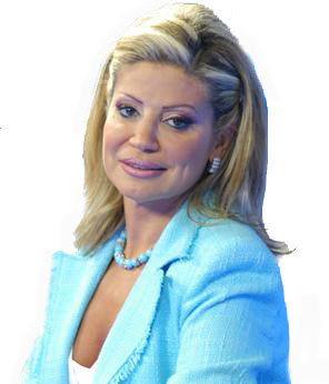 May Chidiac